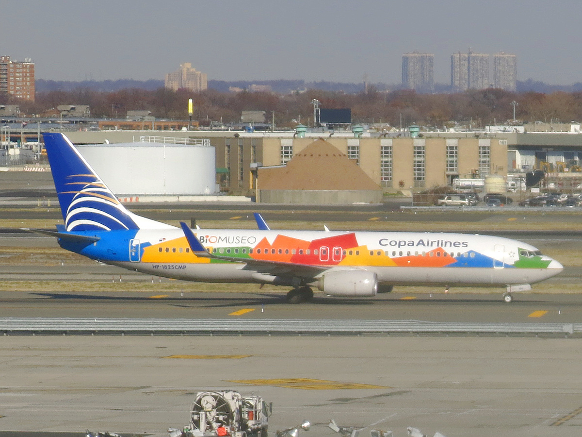 A Copa Airlines Boeing 737-800 airframe painted in a special livery advertising the Biomuseo museum in Panama City, Panama, taxis to its terminal at John F. Kennedy International Airport after arriving from Panama City, Panama.